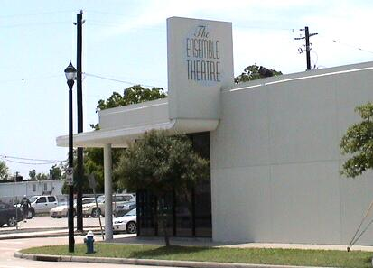 Ensemble Theatre Building in Houston, Texas.